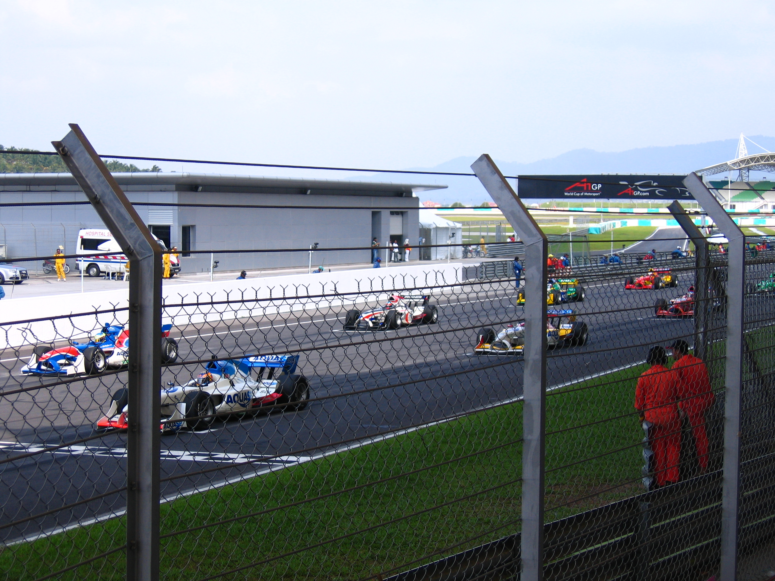 A1 GP held at Sepang International Circuit, Malaysia on 25 November 2007 in which the Malaysian former F1 racer Alex Yoong participated.